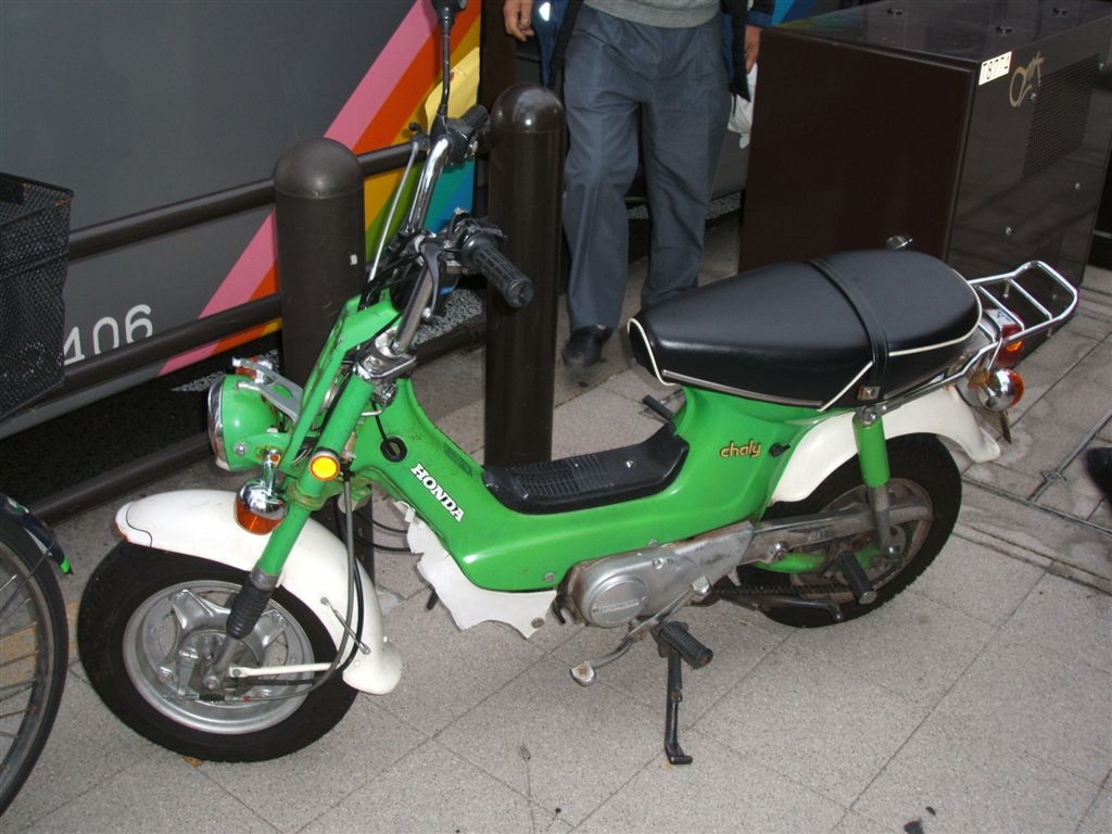 small bike Honda Chaly CF70